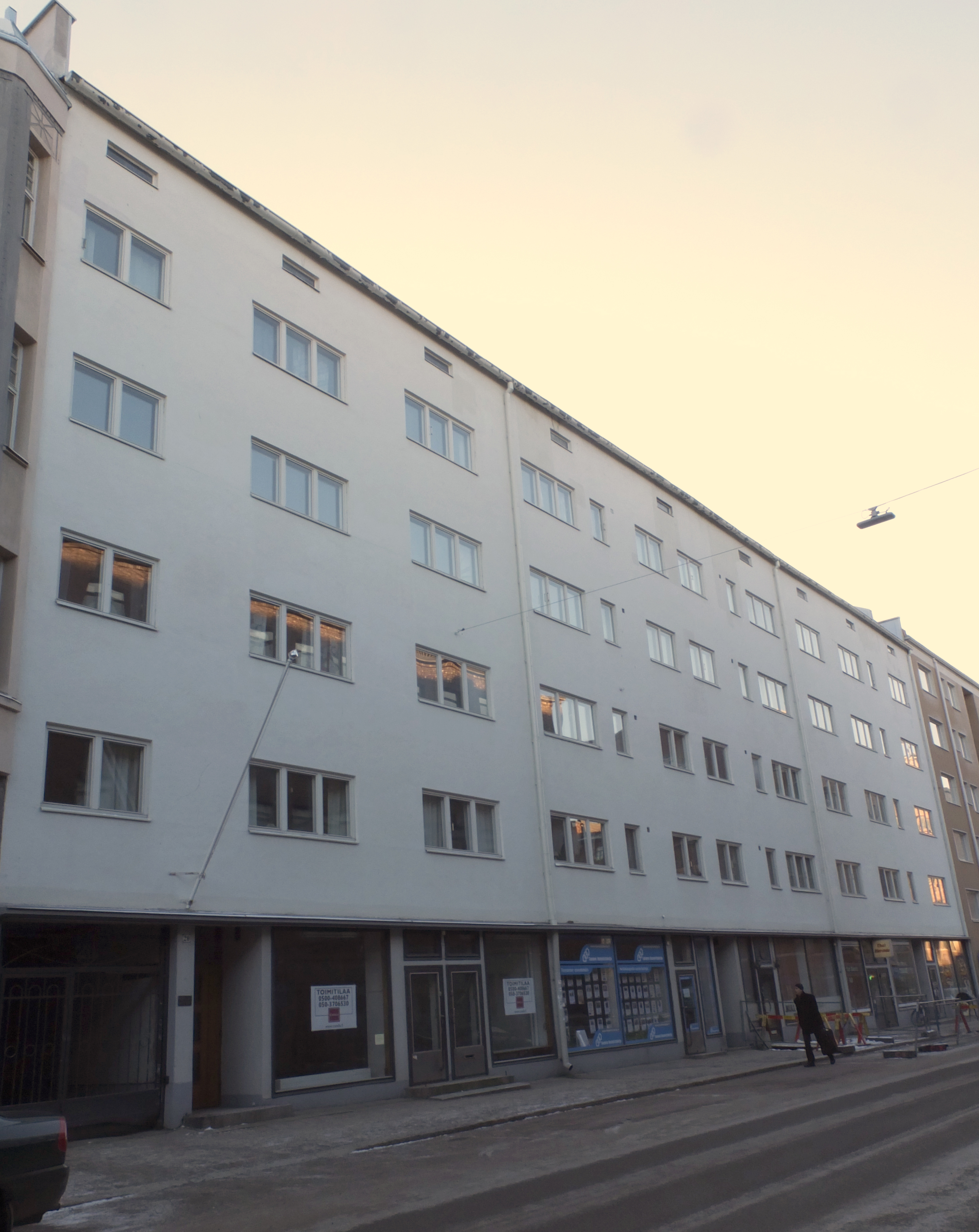 Alvar Aalto ”standard rental apartment bulding”, Turku, 1927–1928 (Läntinen Pitkäkatu 20)